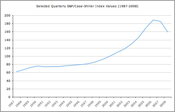 Graph of the Case-Shiller index values through 2008